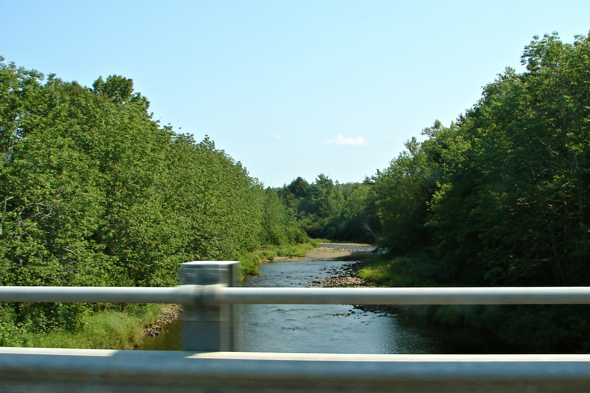 Stewiacke River at Route 336, Nova Scotia, Canada